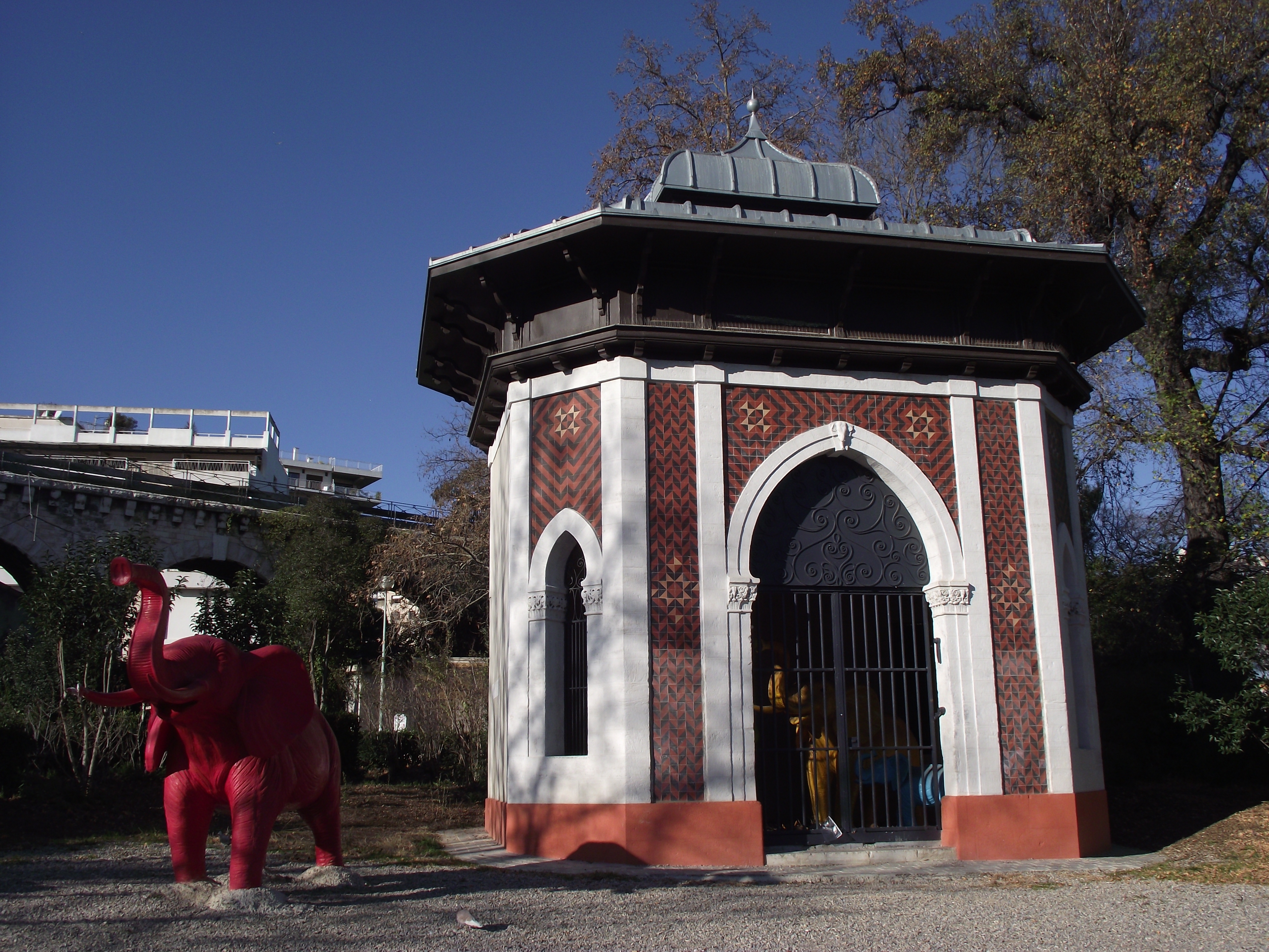 Cinq-Avenues | Rue Espérandieu The Longchamp Palace is composed of three entities: a central water tower with a semicircular colonnade on both sides built to commemorate the arrival in Marseilles of water from River Durance, the Museum of Fine Arts and the Natural History Museum. Arch. Henri Espérandieu 1869. At the rear of the palace, located in the Longchamp park, are located the botanical garden and zoo, although the latter hasn't hosted animals anymore since the late 1980s.